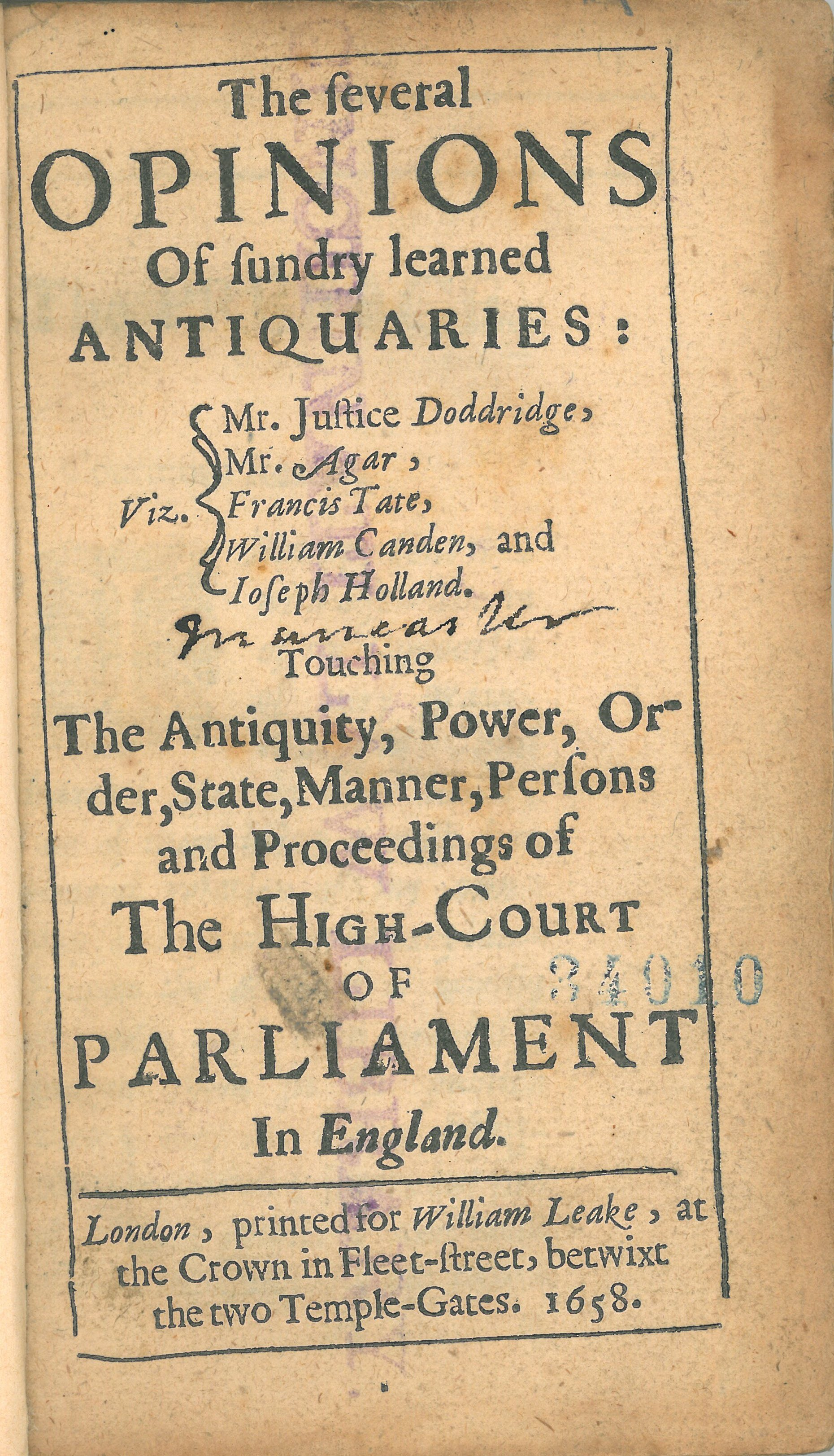 Title page of John Doddridge (1658) The Several Opinions of Sundry Learned Antiquaries: viz. Mr Justice Doddridge, Mr Agar, Francis Tate, William Canden [sic: Camden], and Ioseph Holland. Touching the Antiquity, Power, Order, State, Manner, Persons and Proceedings of the High-Court of Parliament in England, London: Printed for William Leake [the younger], at the Crown in Fleet-street, betwixt the two Temple-Gates OCLC: 15231340. Sir John Doddridge's nephew, John Dodderidge (1610–1659) arranged for the publication of the book: see W[illiam] R[etlaw] Williams (1898) The Parliamentary History of the County of Gloucester, including the Cities of Bristol and Gloucester, and the Boroughs of Cheltenham, Cirencester, Stroud, and Tewkesbury, from the Earliest Times to the Present Day, 1213–1898, Hereford: Private printing for the author by Jakeman and Carver, pp. 116–117 OCLC: 10849371. However, it has been suggested that the essay in the book said to be by John Doddridge, entitled Dissertation on Parliament, is of doubtful authenticity.